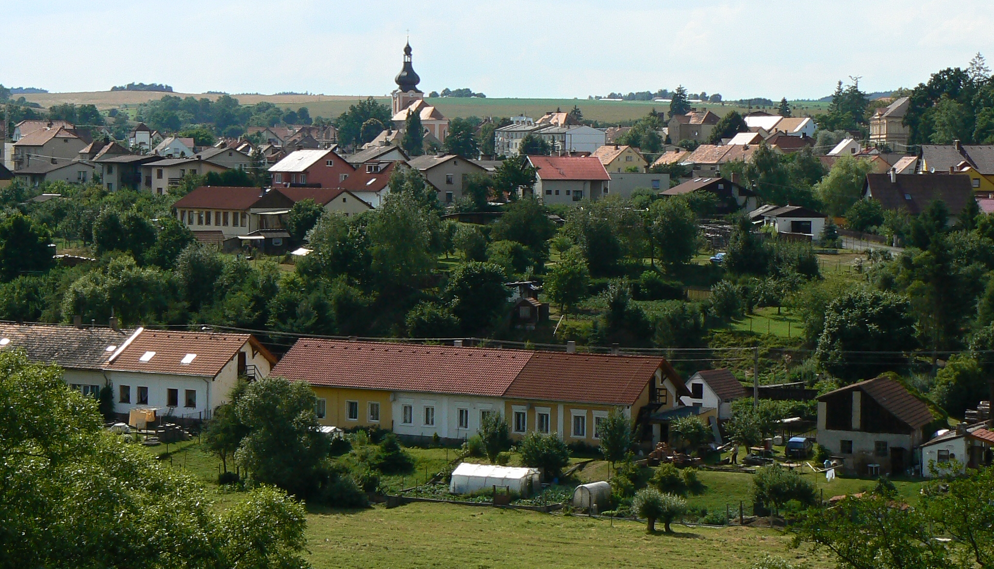 View from monastery in town Kladruby in Tachov District in Czech Republic